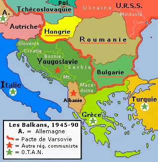 Historic map of the Balkan peninsula during the "Cold War"